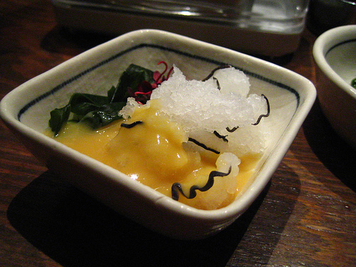 Obake (Whale tail), Japanese delicacy.おばけ（くじら）